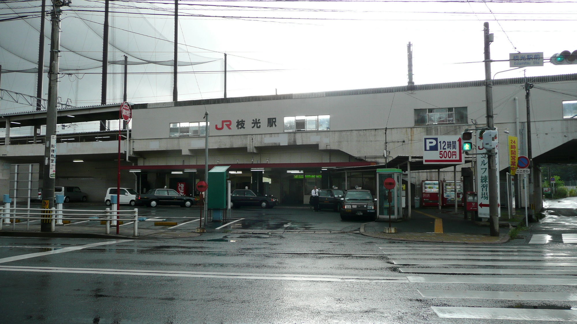 Edamitsu Station,Kagosima Main Line.